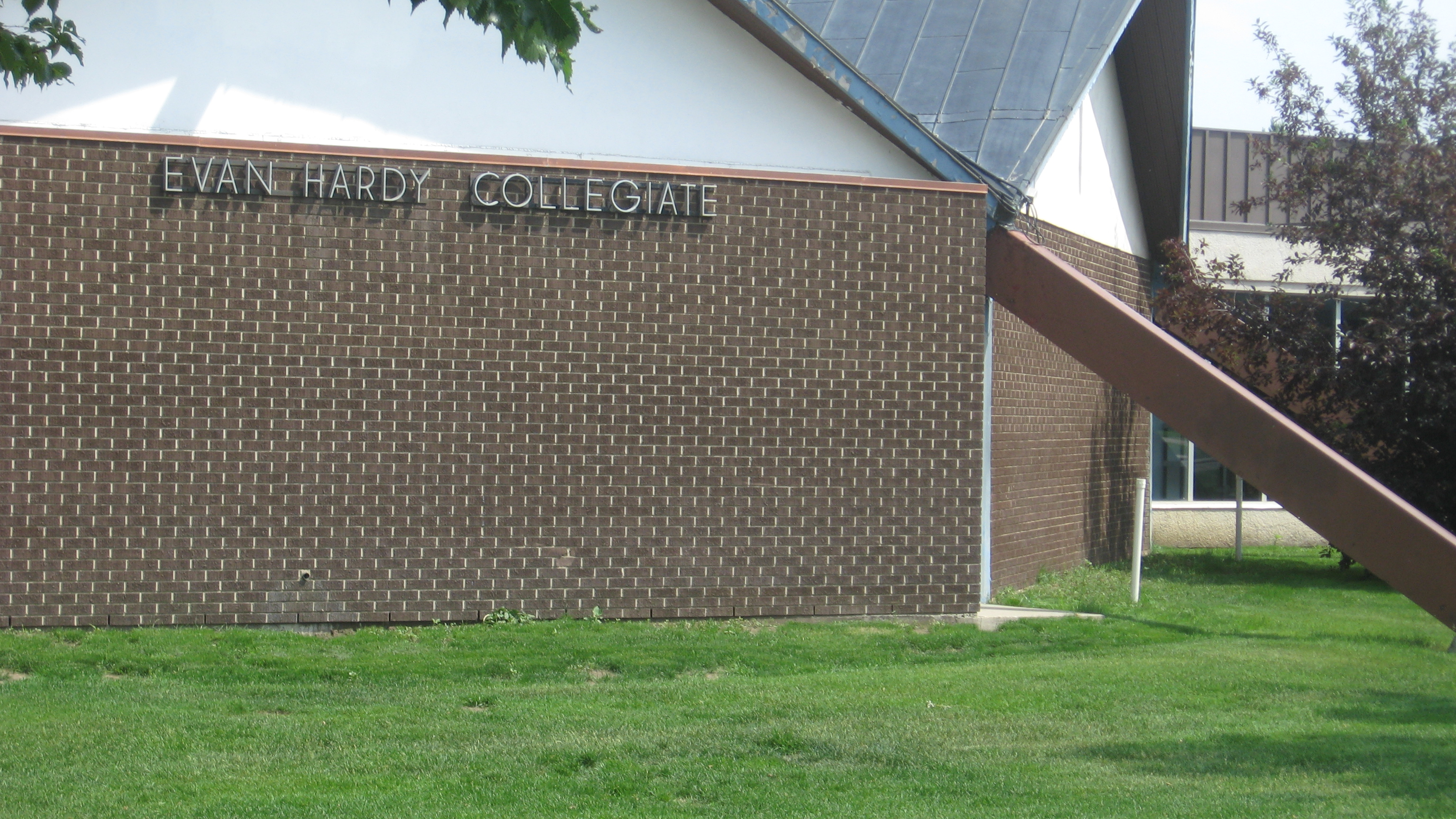 Evan Hardy collegiate, Saskatoon, Saskatchewan